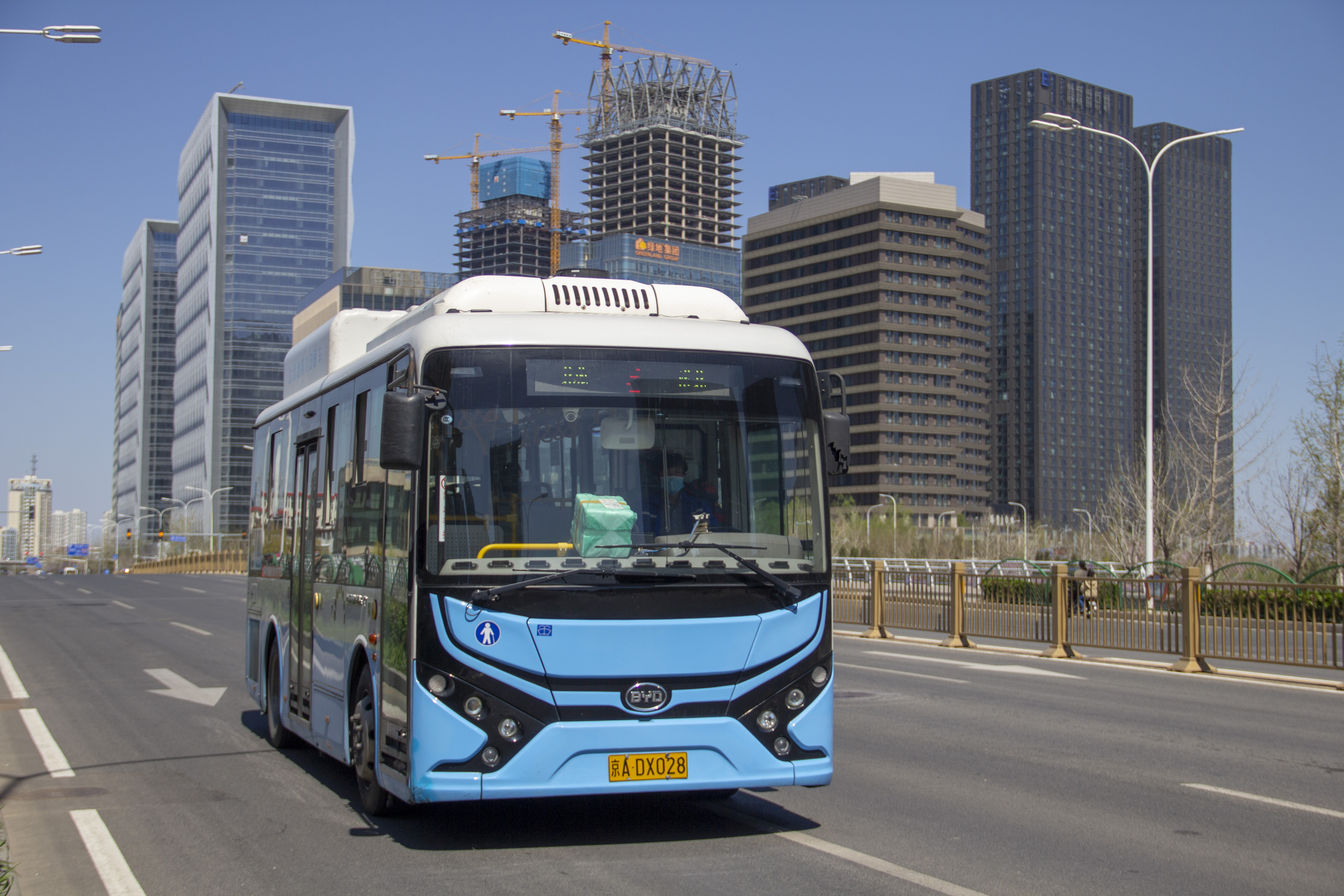 Tongzhou route 2, BYD K7